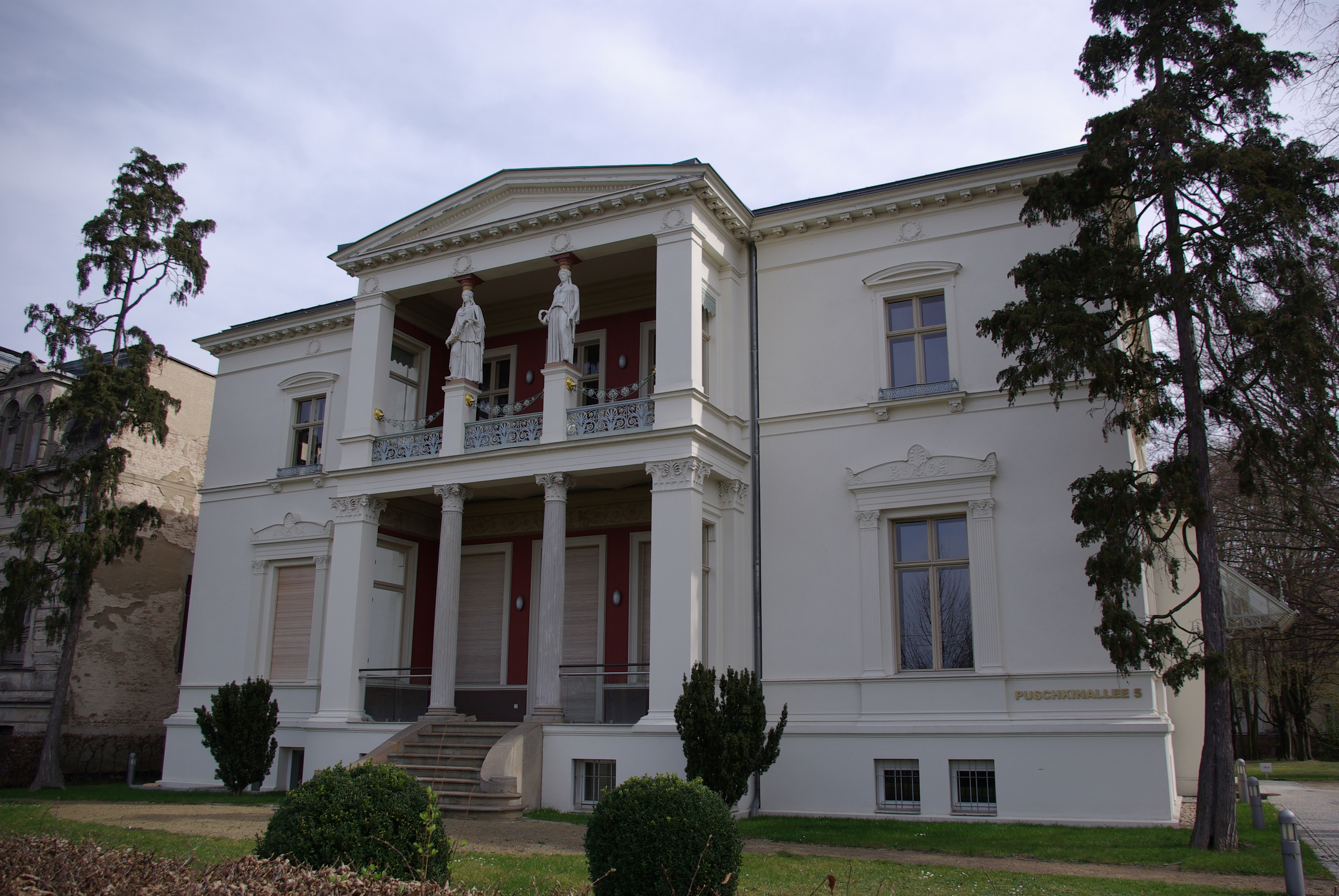 Potsdam in Germany. The house Puschkinallee 5 is a listed building.